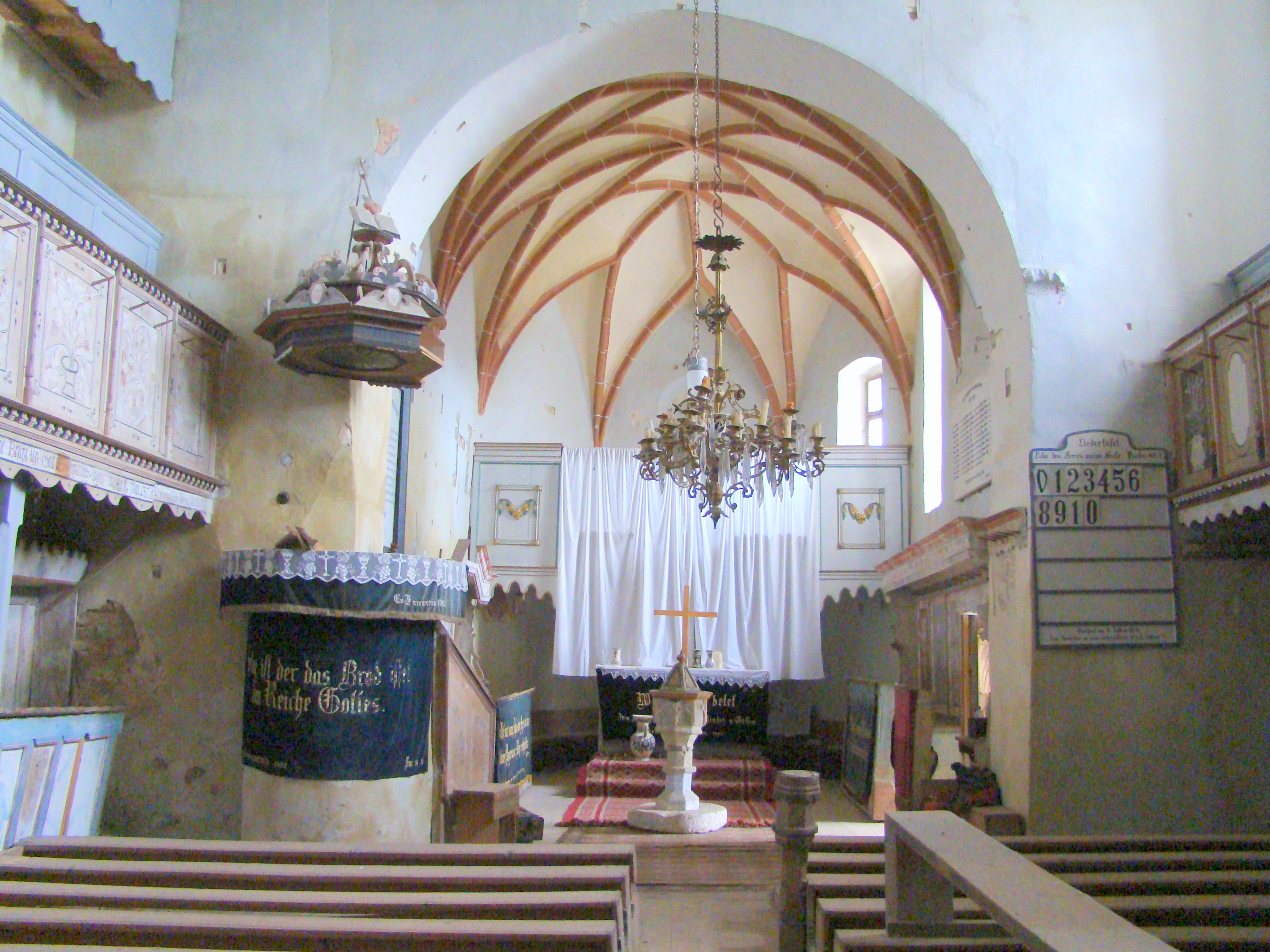 Fortified church in Roadeș, Brașov County, Romania